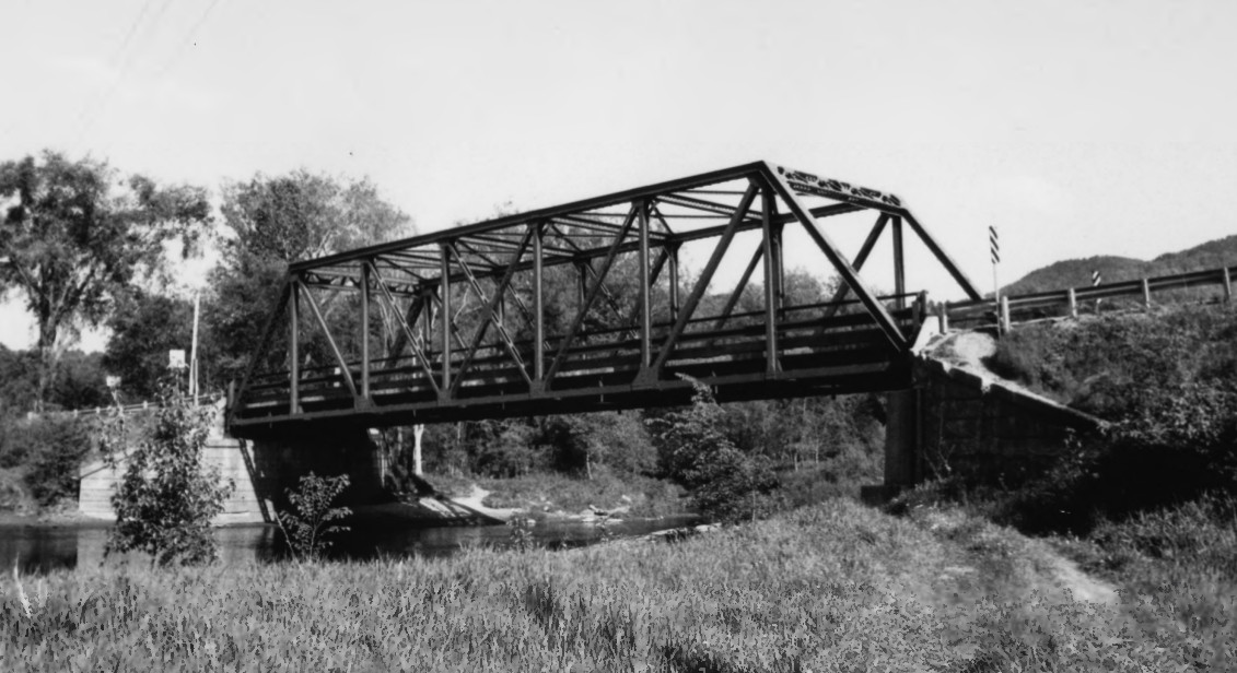 The former Lamoille River Route 15-A Bridge, Morristown, Vermont. This bridge was replaced in 2007.